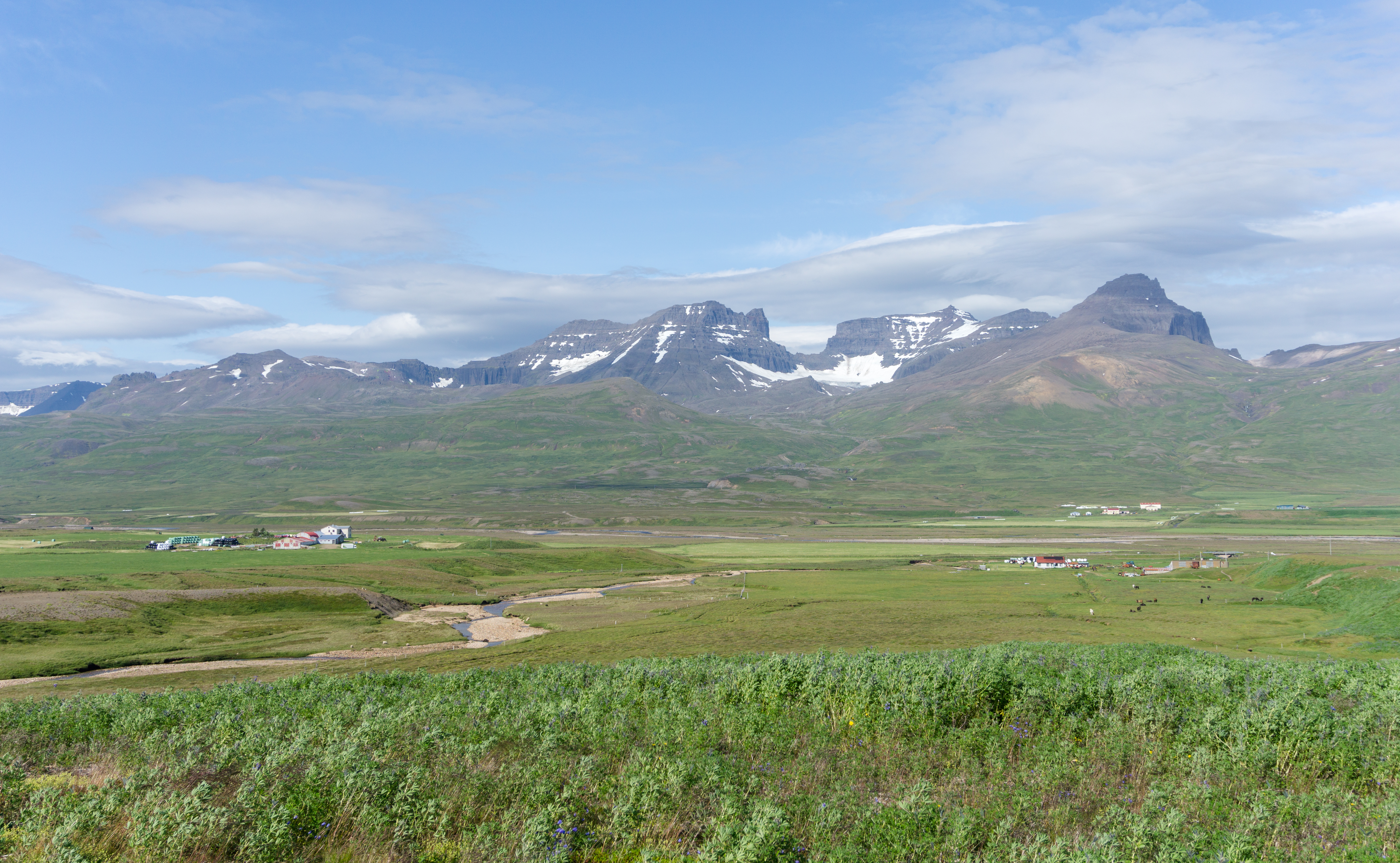 Borgarfjörður. Taken from Víknaslóðir Trail in Eastern fjords, Eastern Region, Iceland